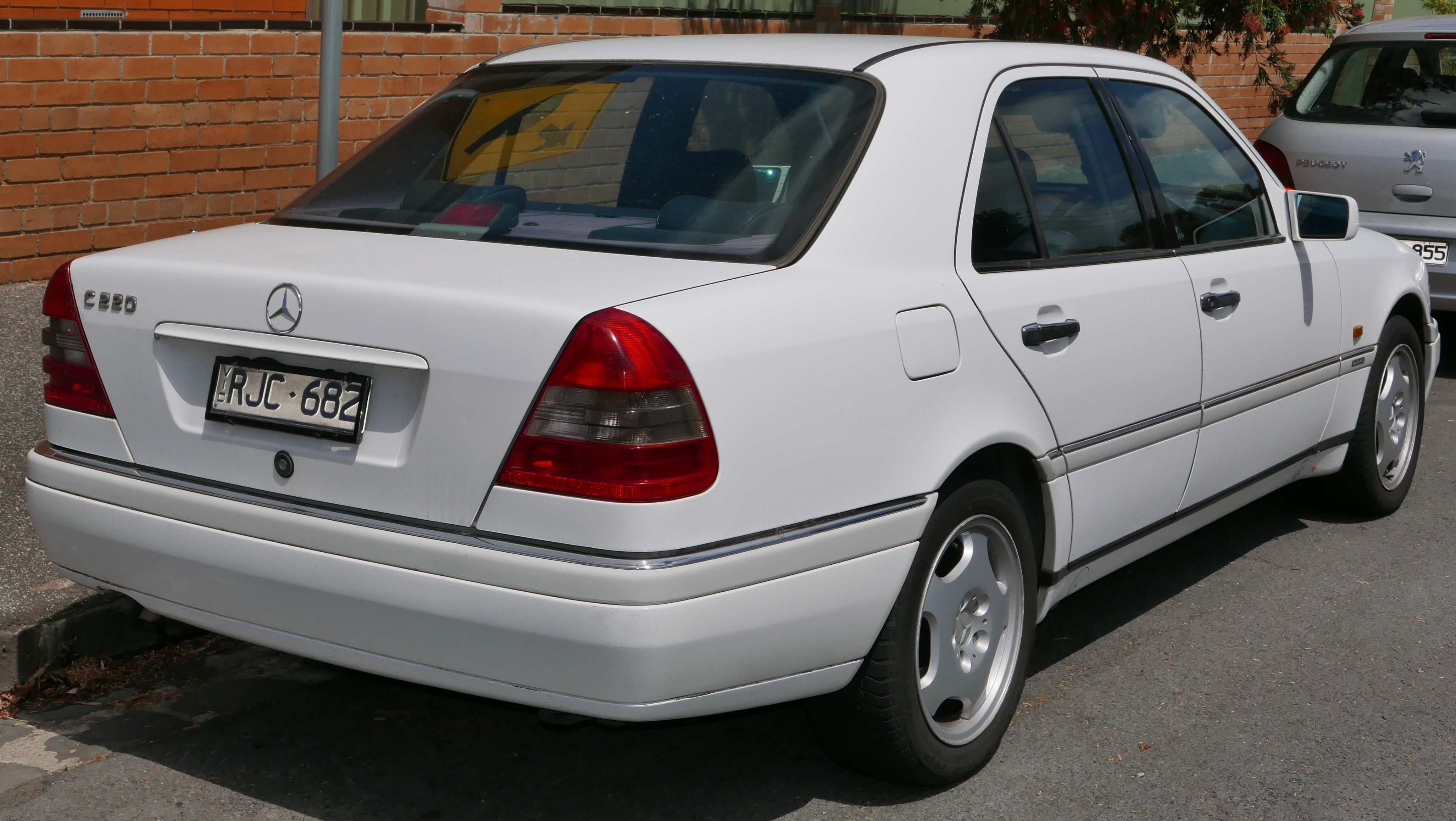 1994 Mercedes-Benz C 220 (W 202) Elegance sedan. Photographed in Brunswick, Victoria, Australia. Vehicle registration enquiry results Jurisdiction Victoria Registration RJC682 Chassis code WDB2020222F036894 Engine code 11196122010617 Compliance date 1994-02 Year of manufacture 1994